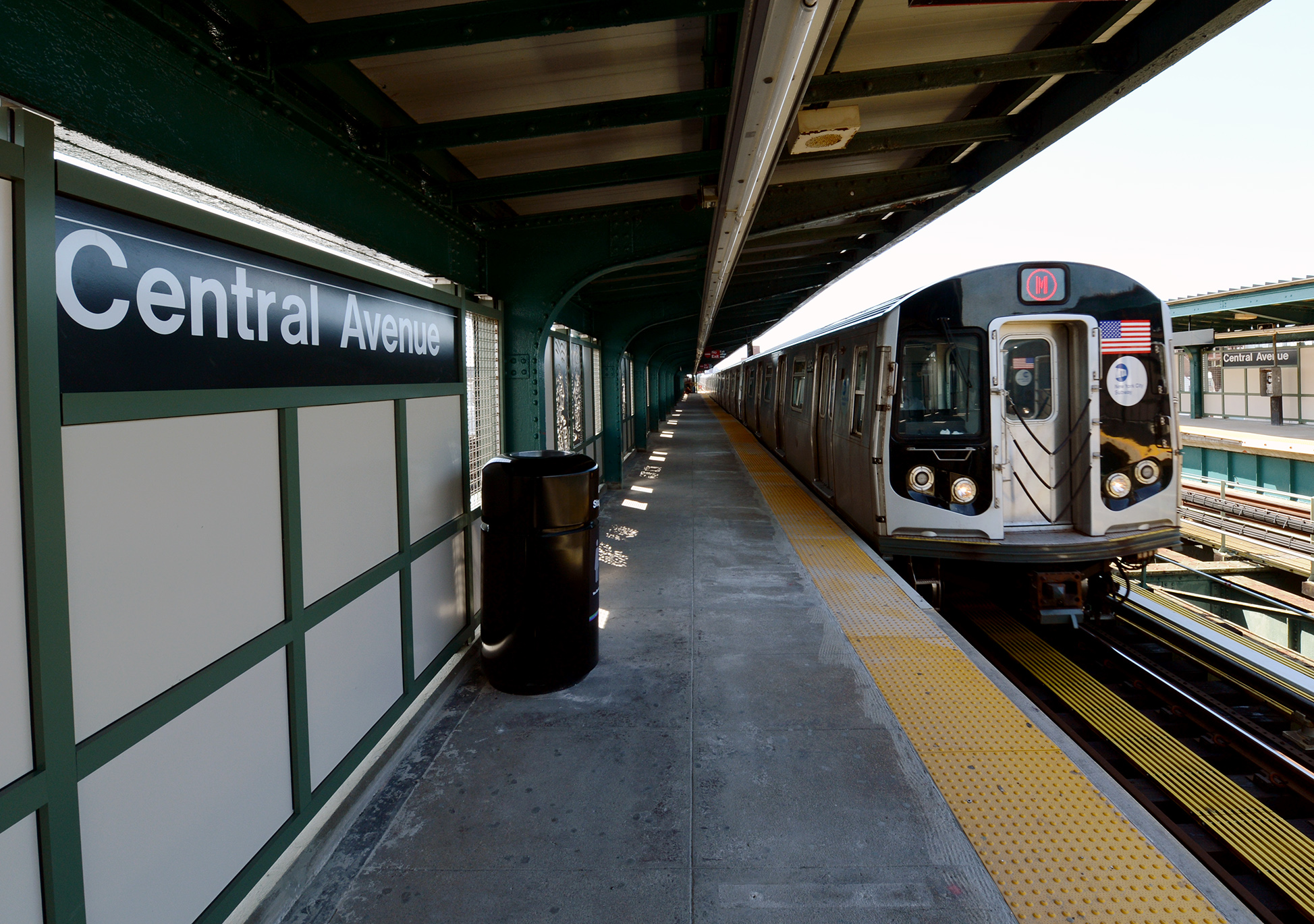 The Central Av. Station on the M line above Myrtle Ave., Brooklyn, reopens on Fri., August 16, 2013, after a five-month rehabilitation project. Photo: MTA New York City Transit / Marc A. Hermann